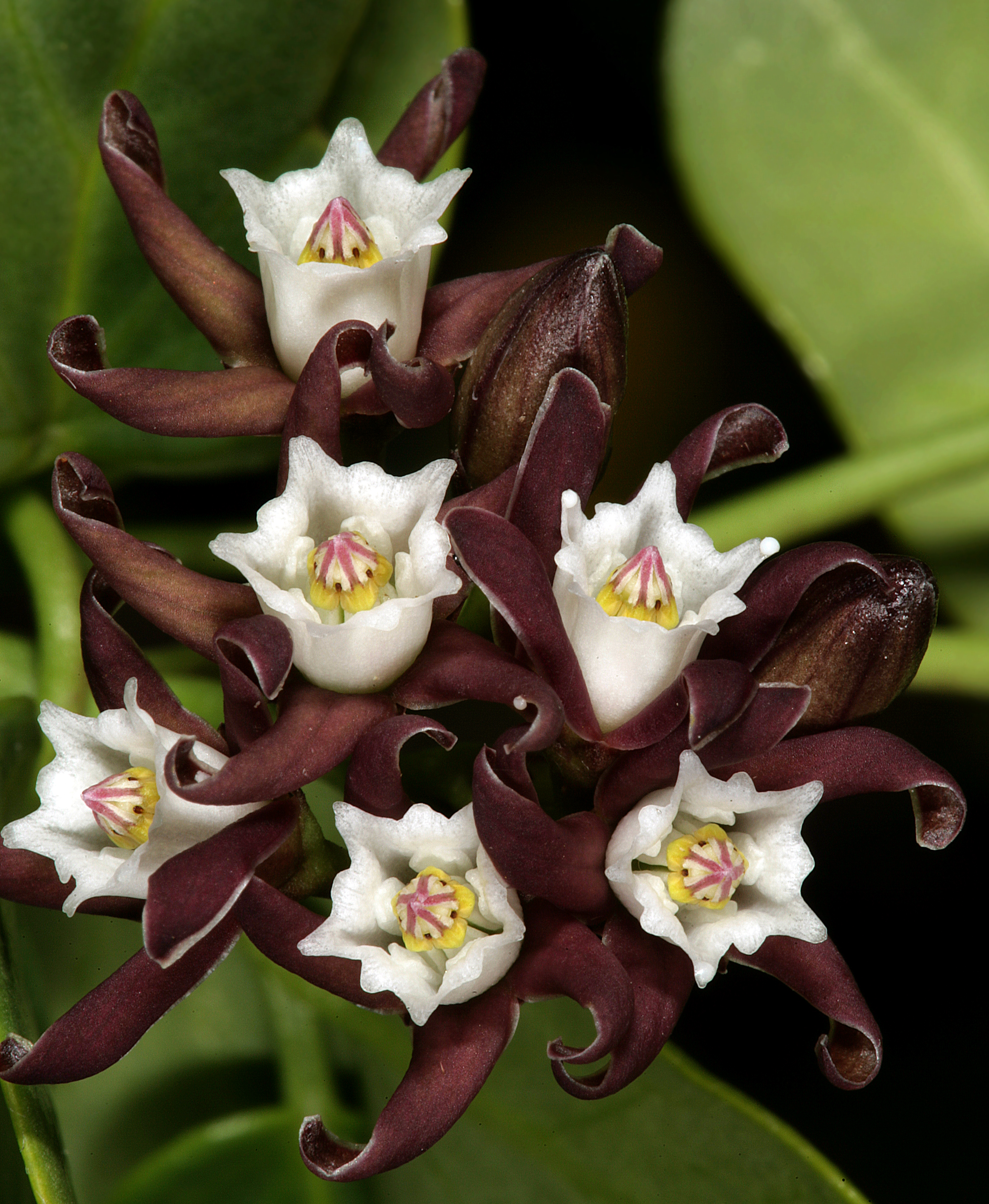 Cynanchum africanum, flowers; Koeberg Nature Reserve, Melkbosstrand, Western Cape, South Africa